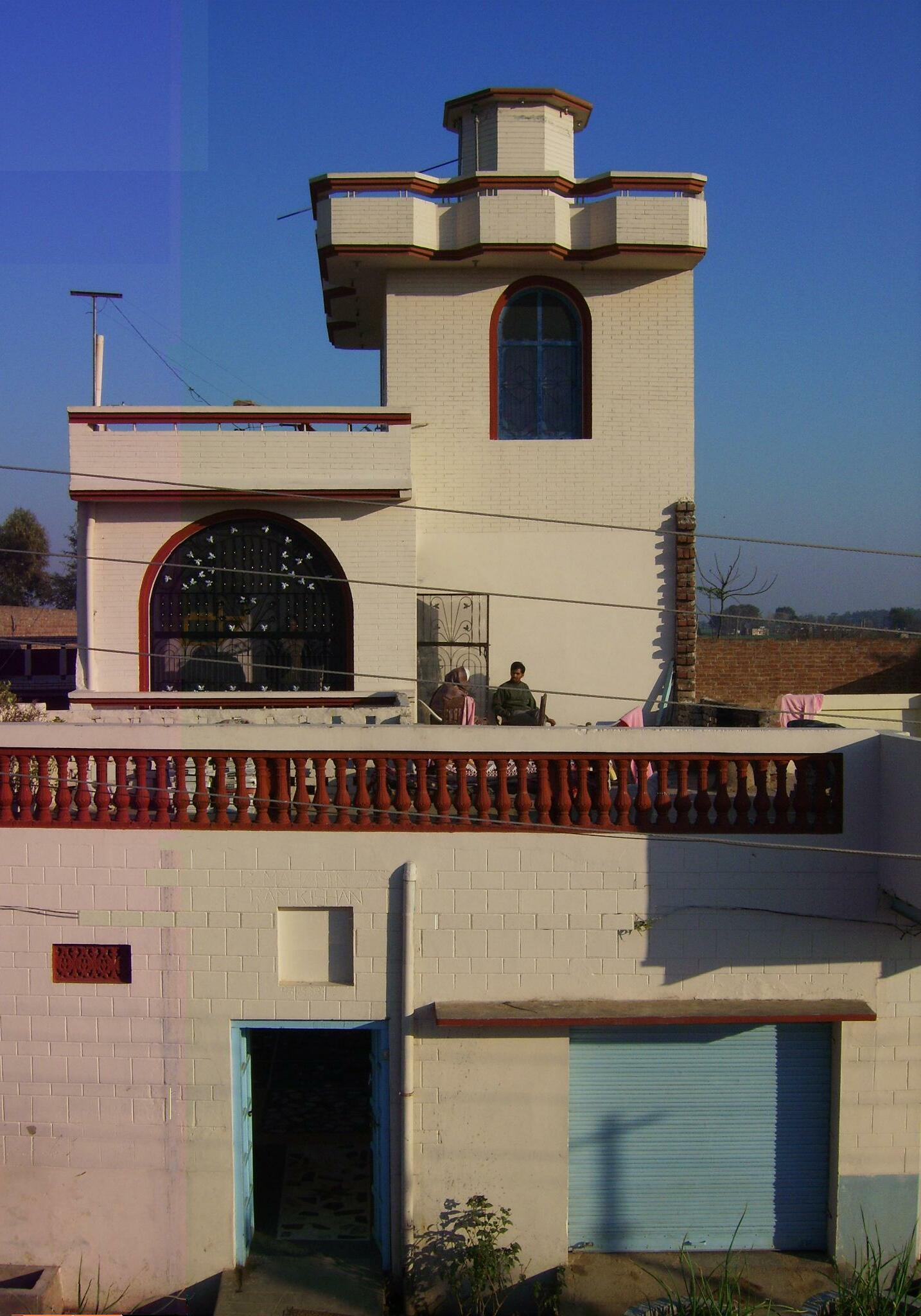 mehmi villa in nawan pind.JPG